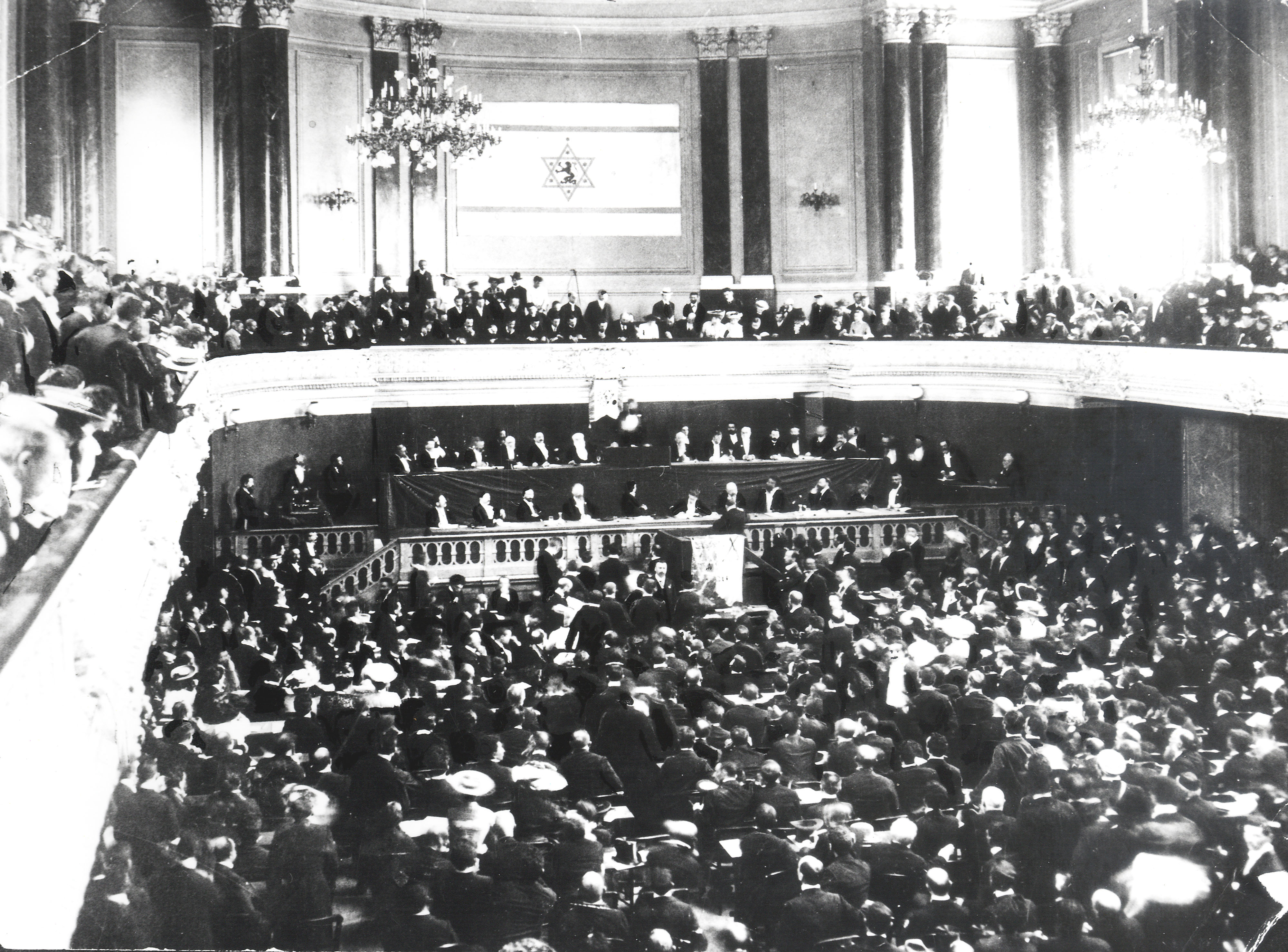 THEODOR HERZL AT THE FIRST OR SECOND ZIONIST CONGRESS IN BASEL IN 1897-98. תאודור הרצל בקונגרס הציוני הראשון או השני - שנת 1897-1898.